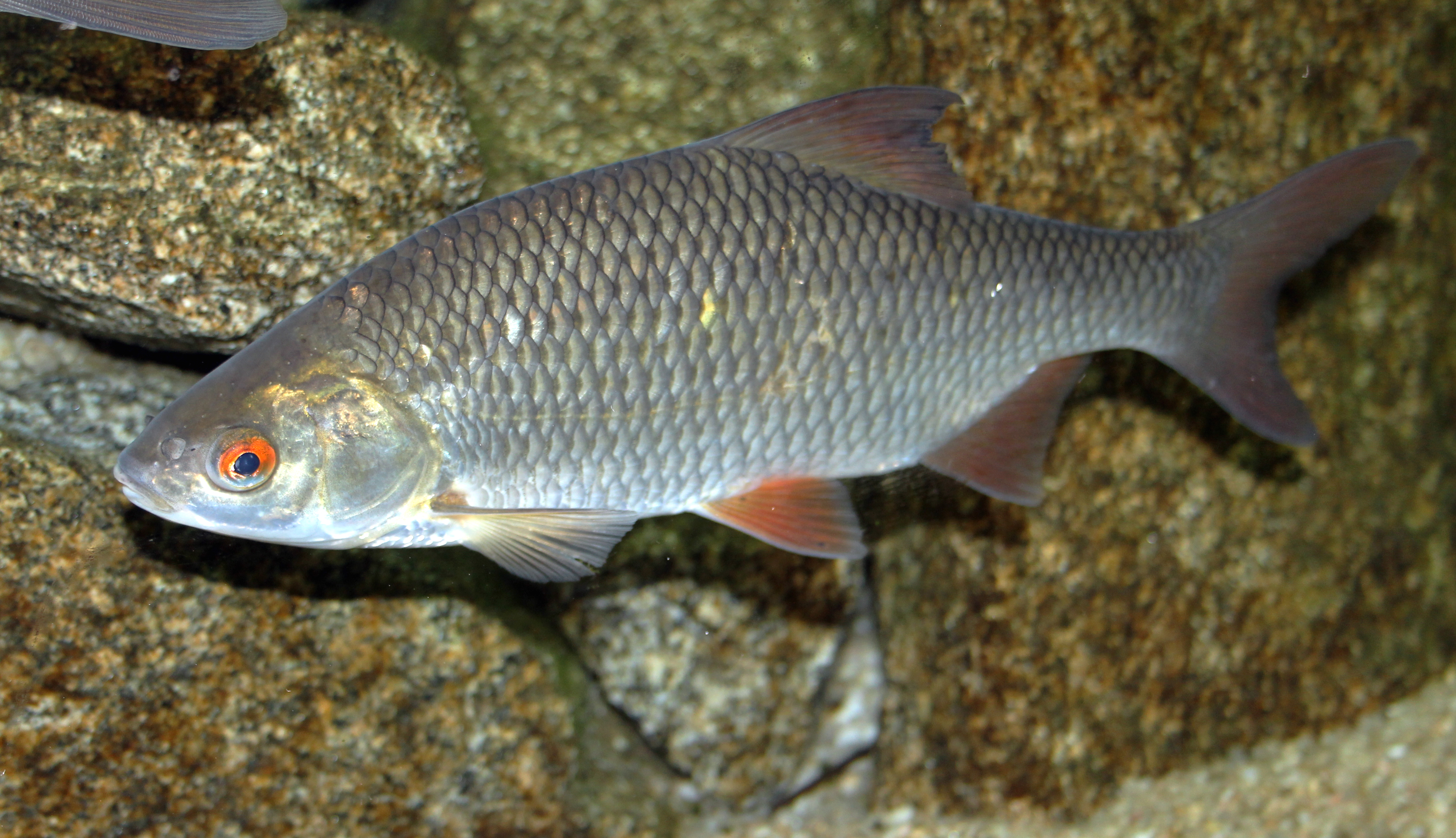 Common roach on exhibition Subaqueous Vltava, Prague 2011, Czech Republic